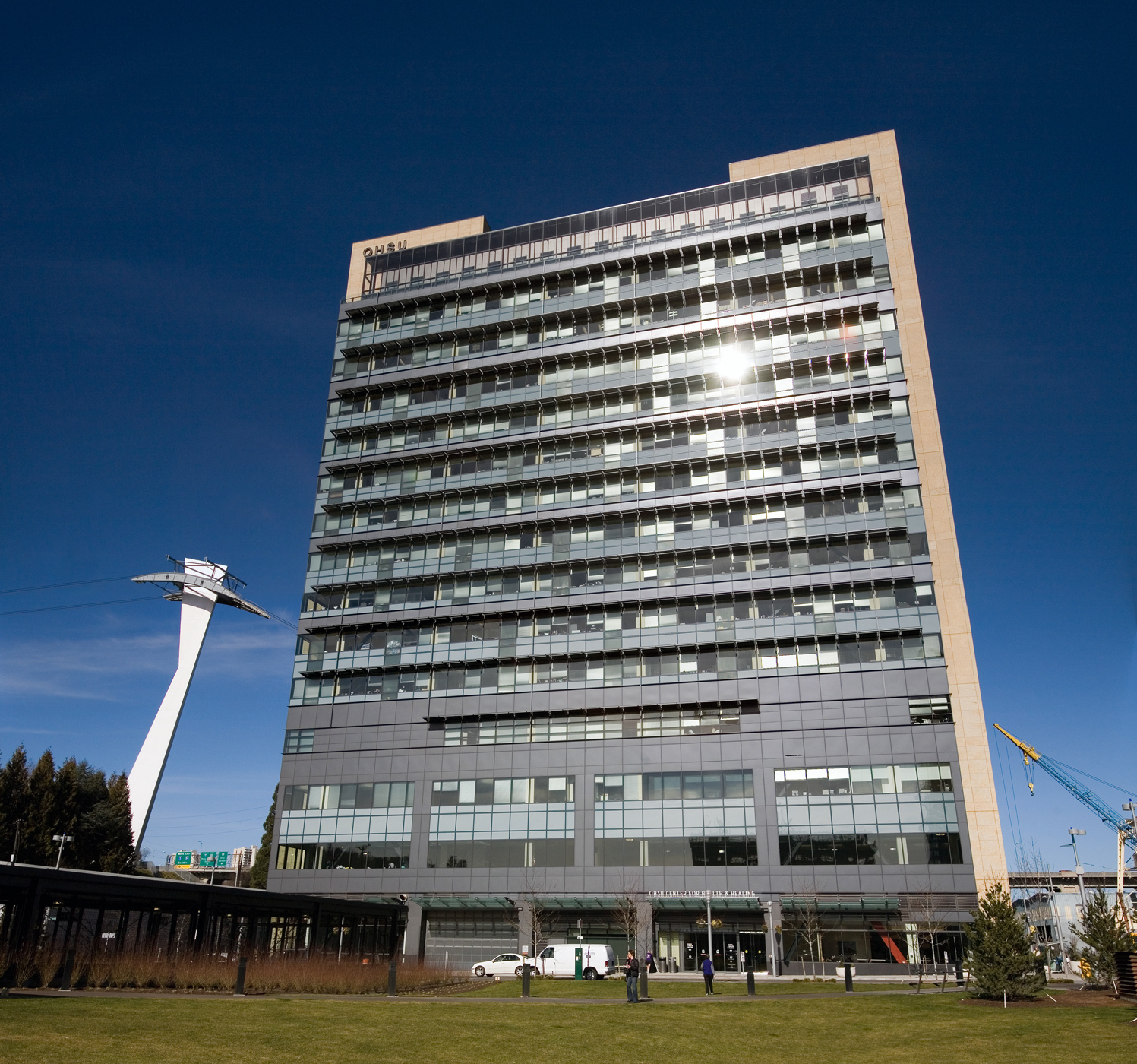 Oregon Health Sciences University Center for Health and Healing in Portland, Oregon. The greenspace in the foreground has subsequently been filled by a new high-rise building also owned by OHSU and known as CHH2, which opened in spring 2019.